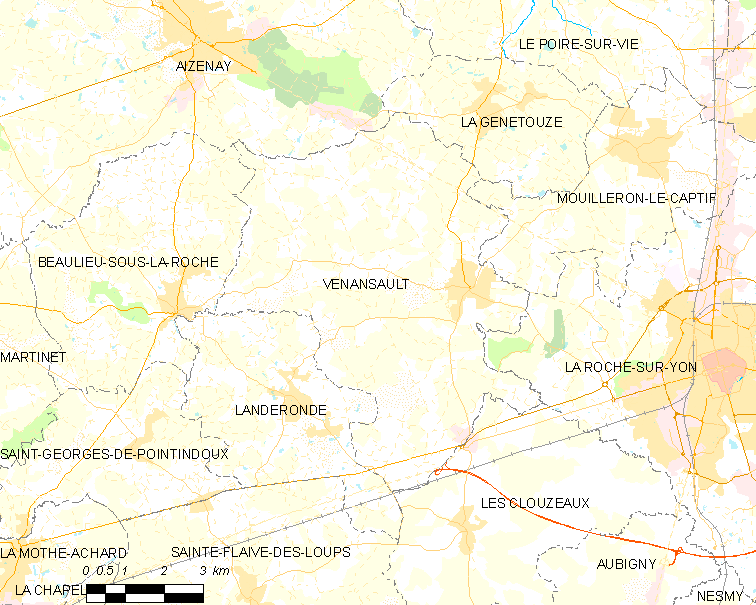 Map of French municipality Venansault